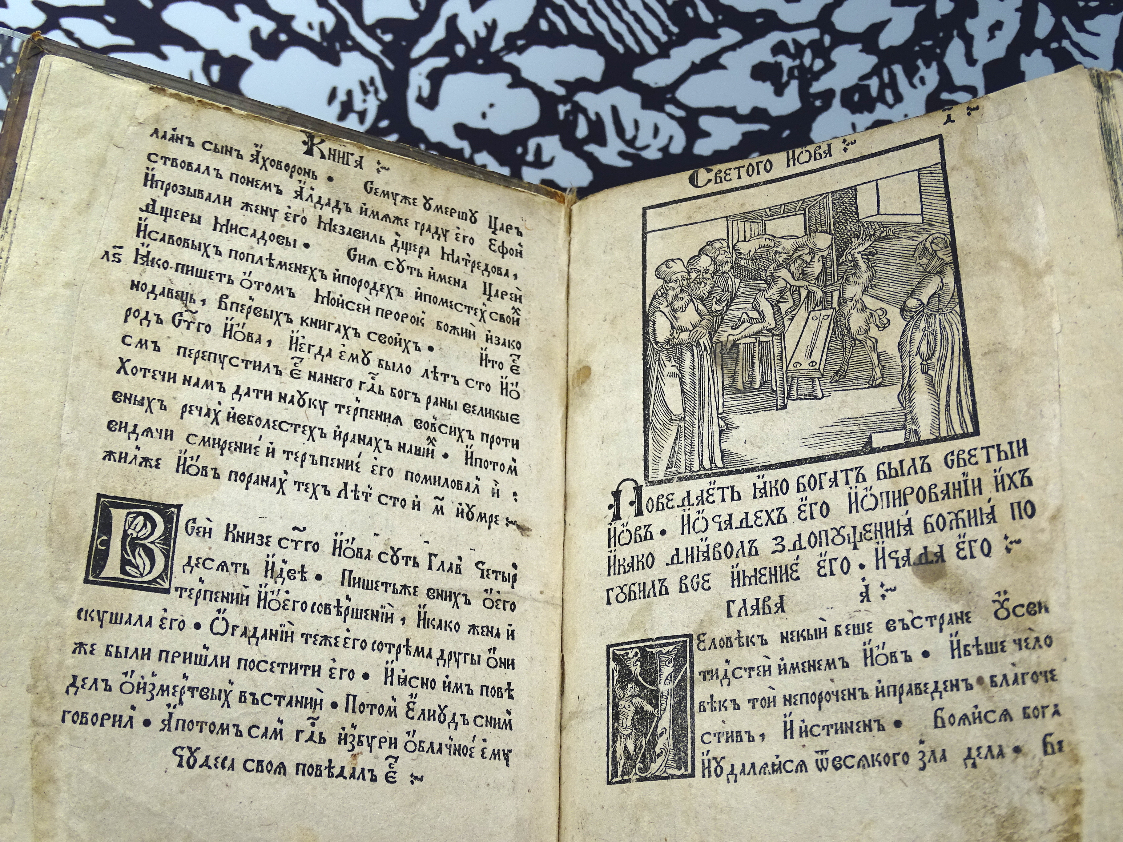 1517 Printed Volume of Bible by Francisk Skoryna - Book Museum - National Library - Minsk - Belarus - 02